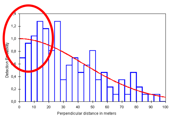 Line transect data from a skylark survey. The inclined dip in detections close to the transect line indicates that animals moved away from observer to some extent.